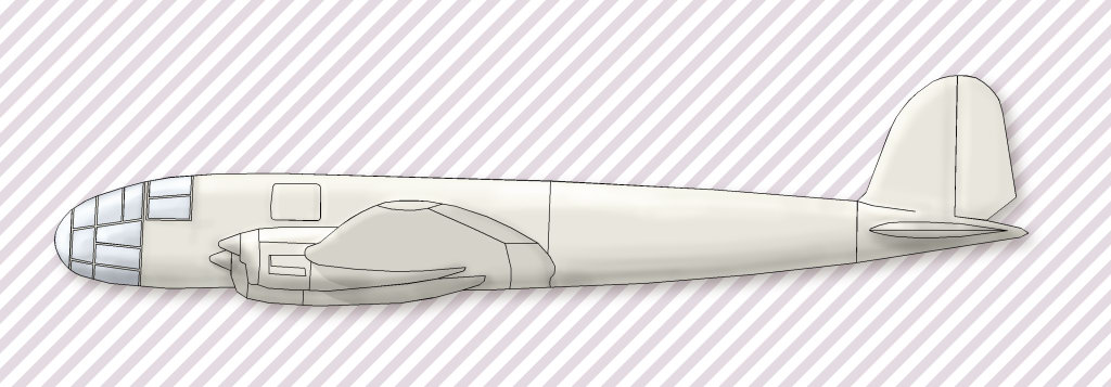 Sketch of a Heinkel He 116